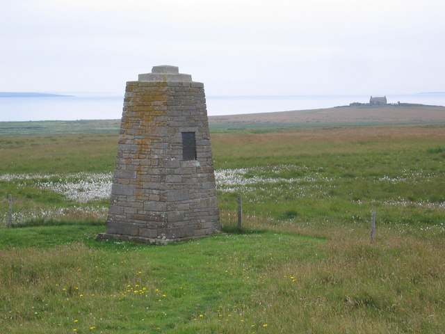 Monument and land to Howan on Egilsay. The monument from 1917 commemorates the spot where, some believe, Earl Magnus (of St Magnus fame) was slain 800 years before. Some locals however believe he was killed on the beach close to Howan, seen in the distance, but that the monument builders felt it was too far to carry the stone.